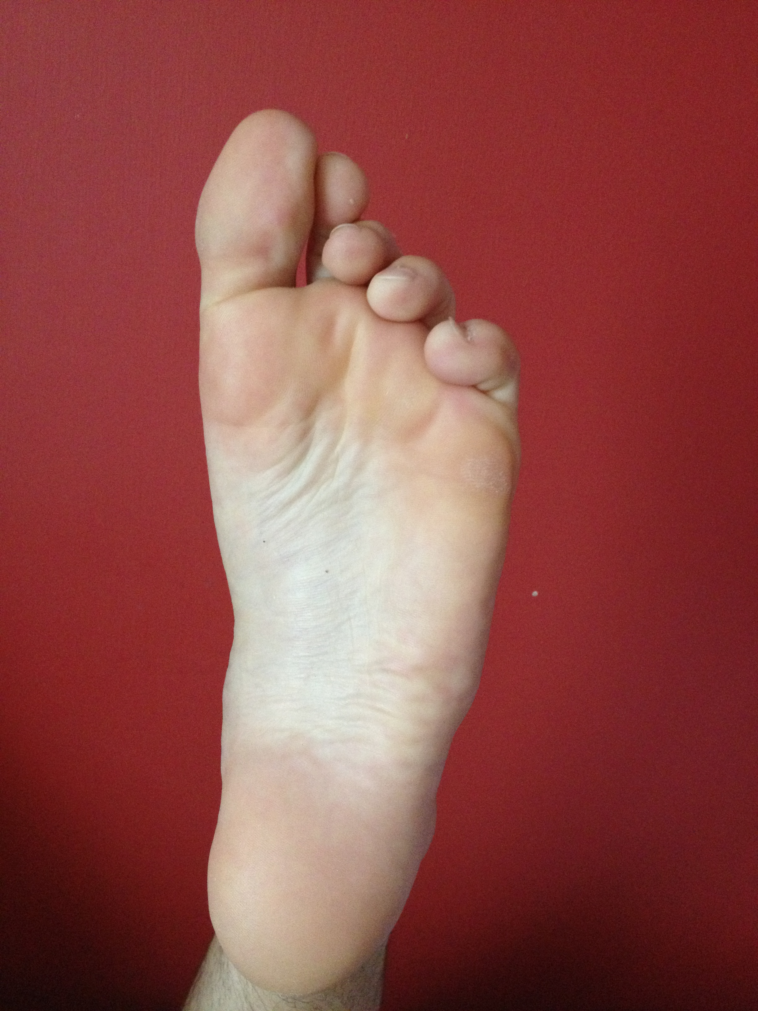 Sole of 23 year old Male.